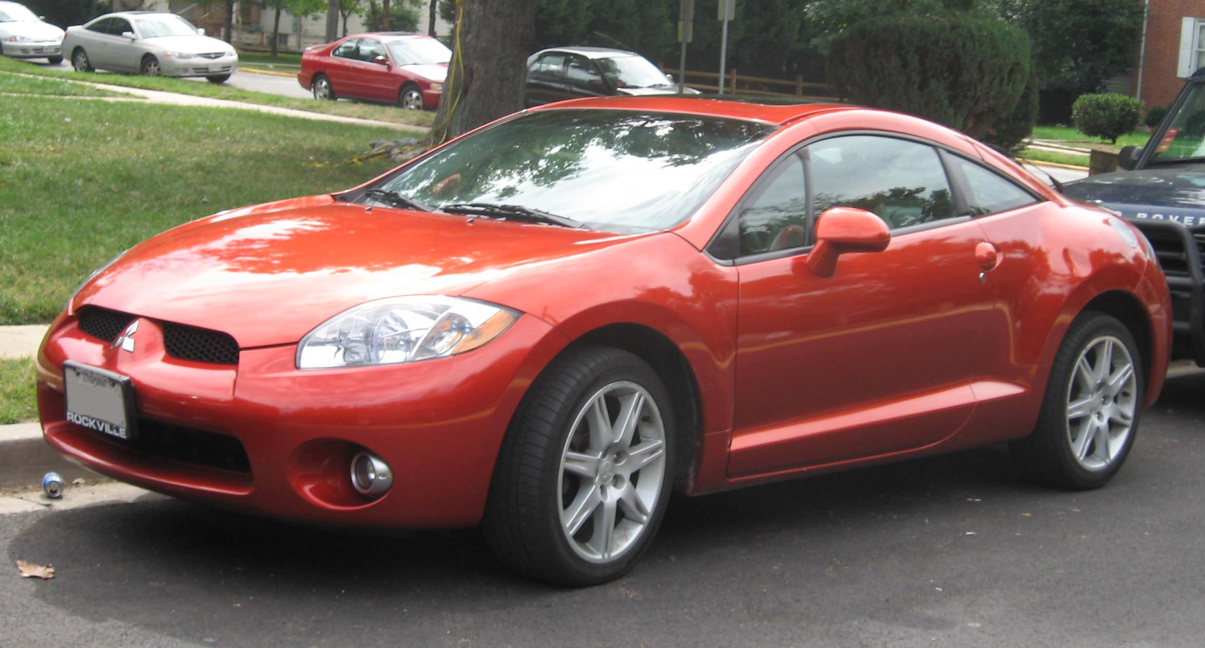 2006-2008 Mitsubishi Eclipse photographed in College Park, Maryland, USA.